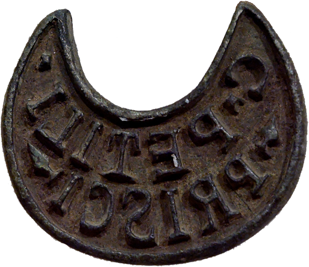 Stamping mold in forme of a crescent moon, used for bricks and tiles. Bronze, date unknown. Provenance : Tibre.